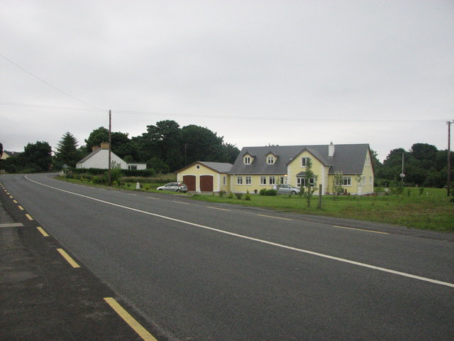 Roadside bungalow A new bungalow along the R241 Moville to Greencastle road.